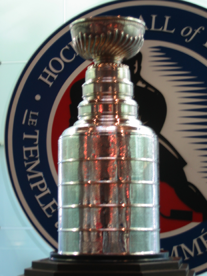 The Stanley Cup on display at the Hockey Hall of Fame in Toronto.